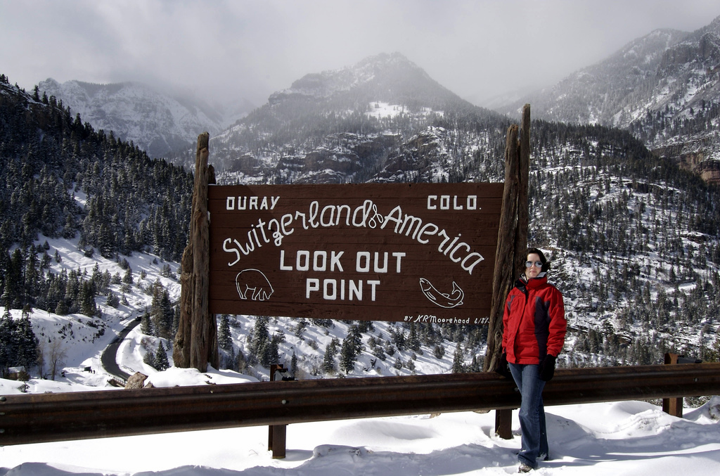 "Switzerland of America sign entering Ouray Colorado on the Million Dollar Highway